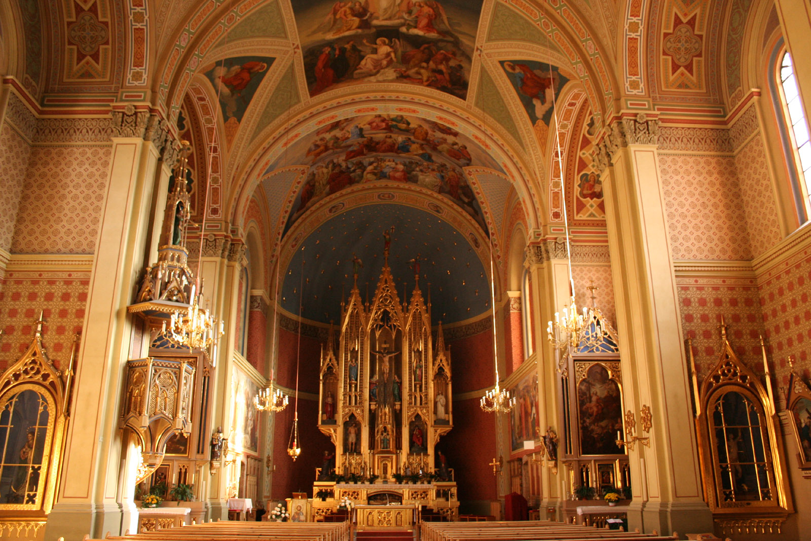 View of the Nave and the Altar of the Parrish Church in Zirl, Austria.